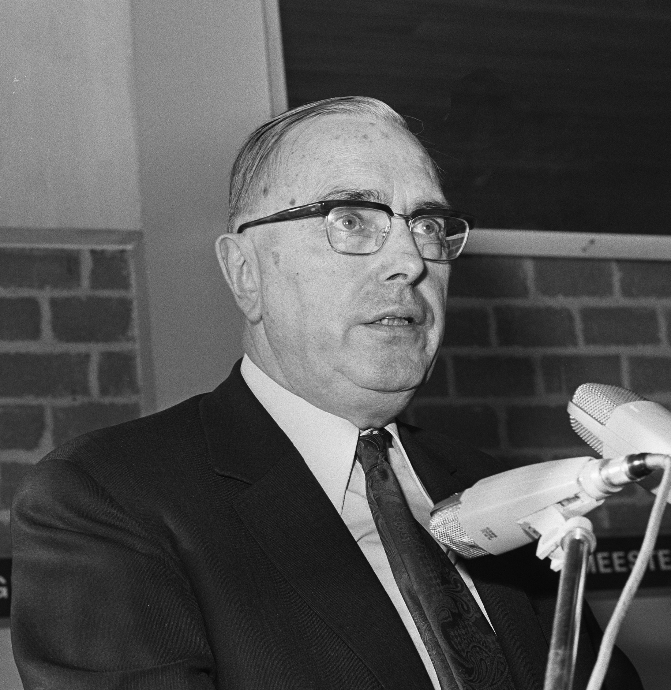 Max Euwe at the Wijk aan Zee tournament